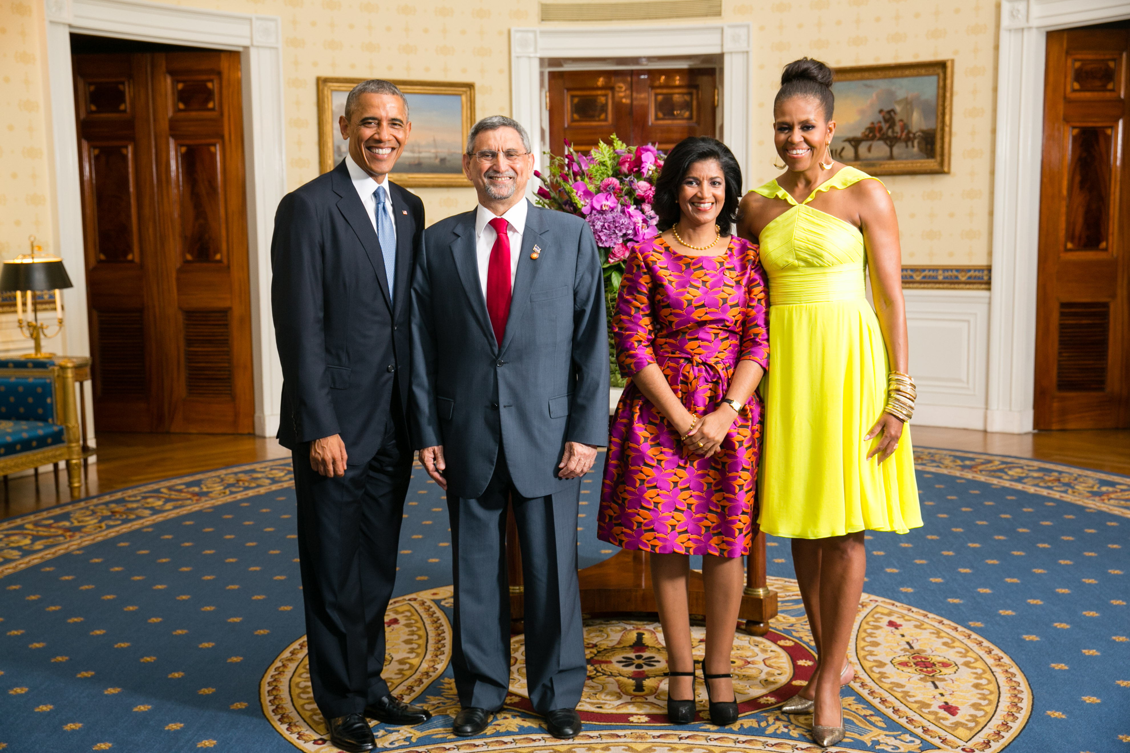 President Barack Obama and First Lady Michelle Obama greet His Excellency Jorge Carlos de Almeida Fonseca, President of the Republic of Cabo Verde, and Mrs. Lígia Arcangela Lubrino Dias Fonseca, in the Blue Room during a U.S.-Africa Leaders Summit dinner at the White House, Aug. 5, 2014.